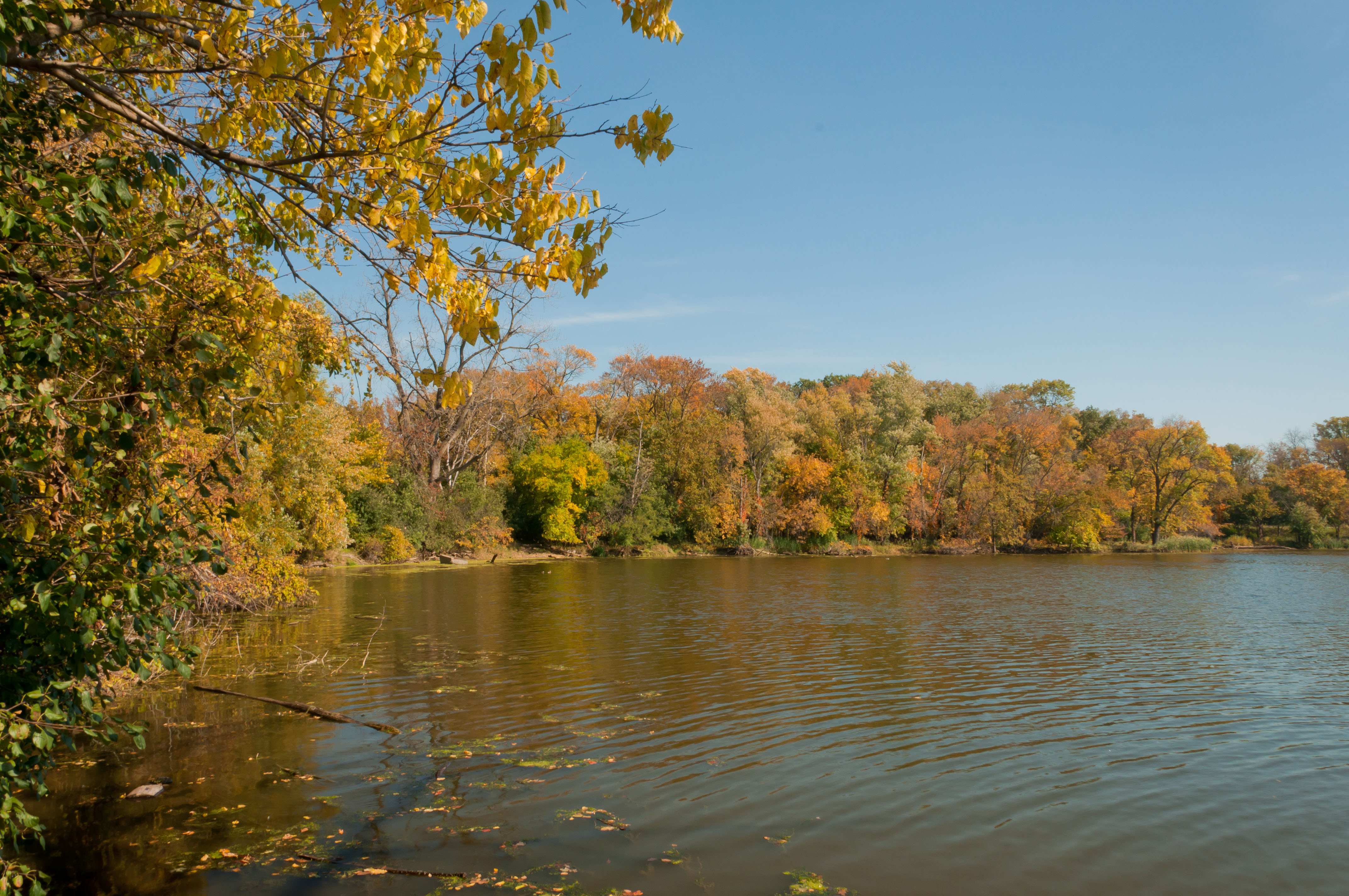 Skokie Lagoons in fall